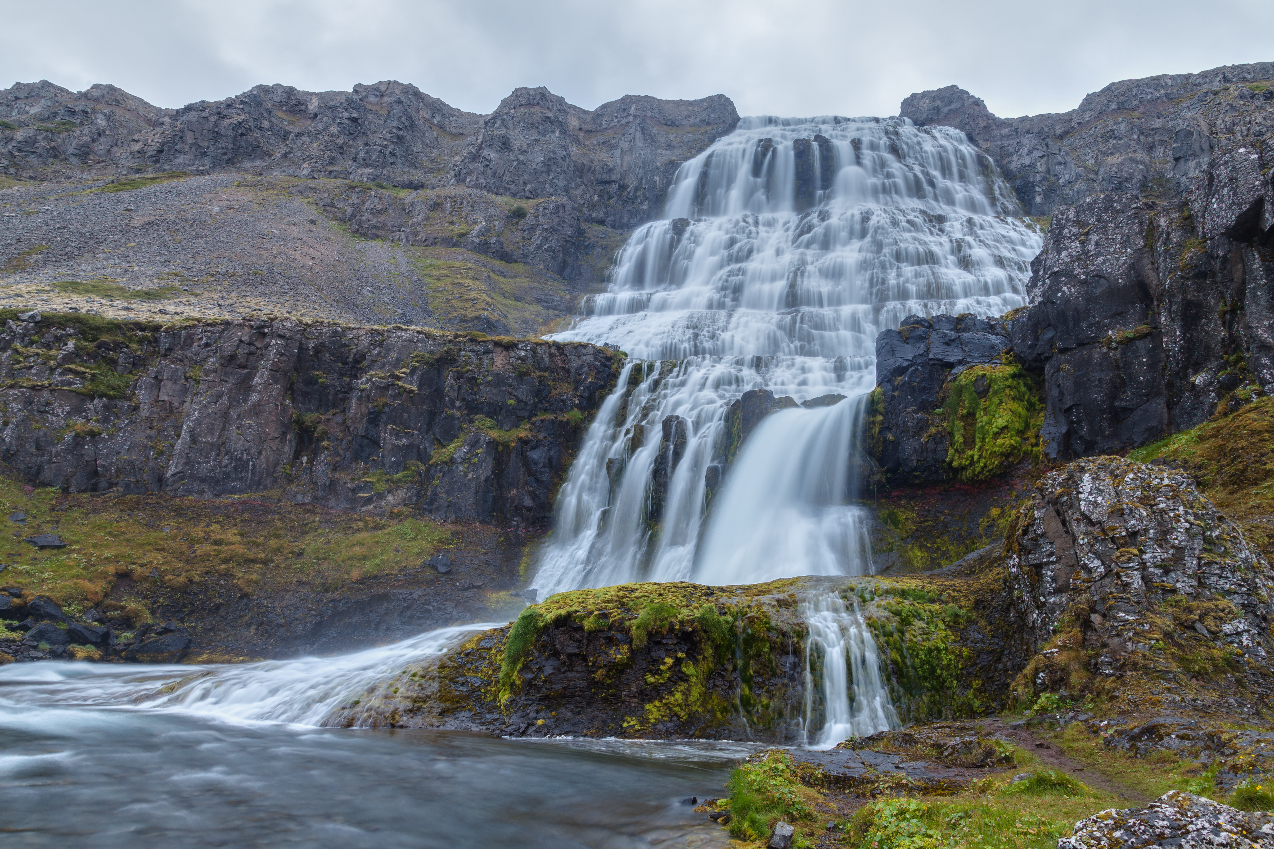 Waterfall Dynjandi, Vestfirðir, Iceland